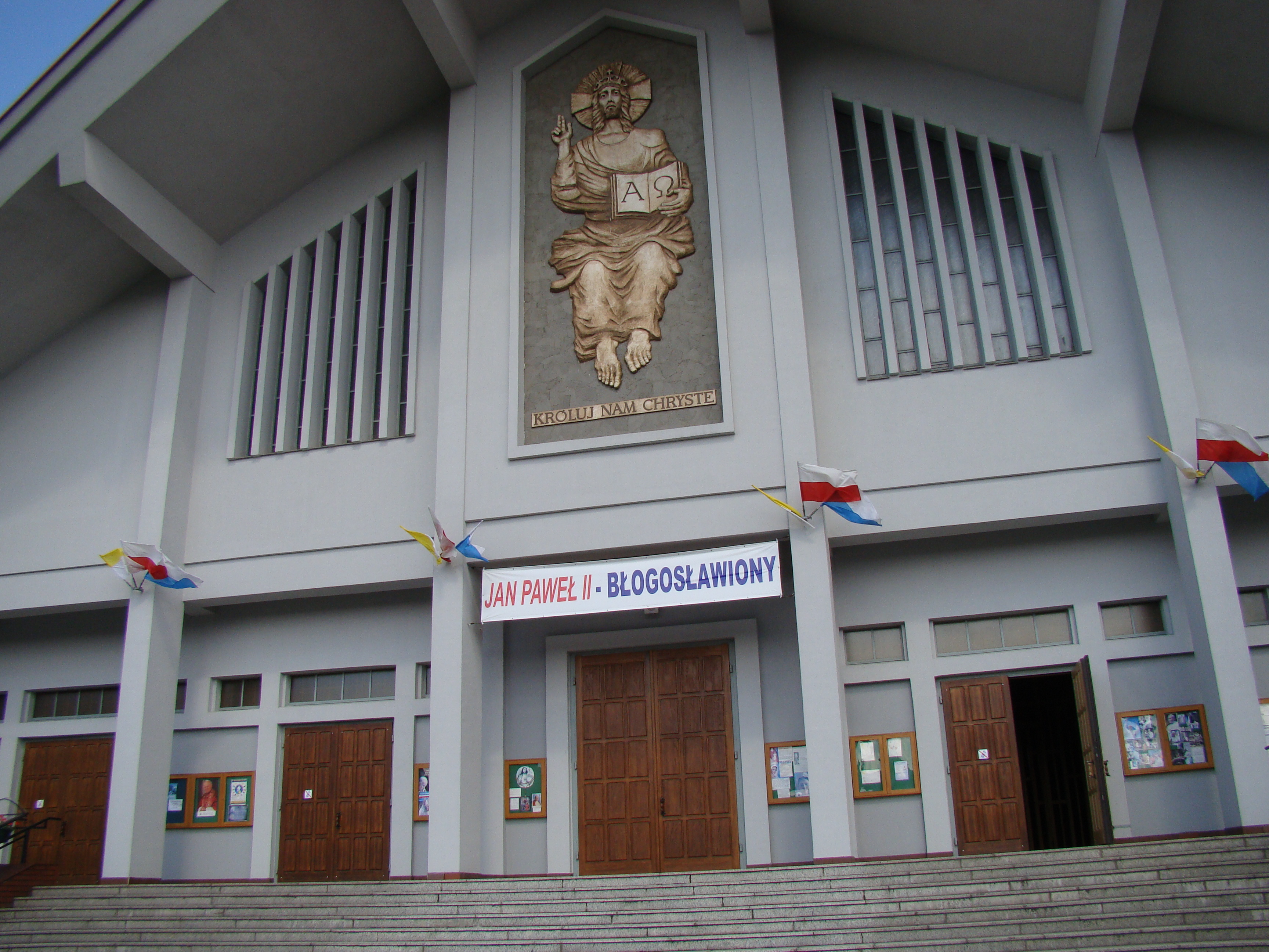 Catholic Church of Christ the King, Łódź, Poland (3)